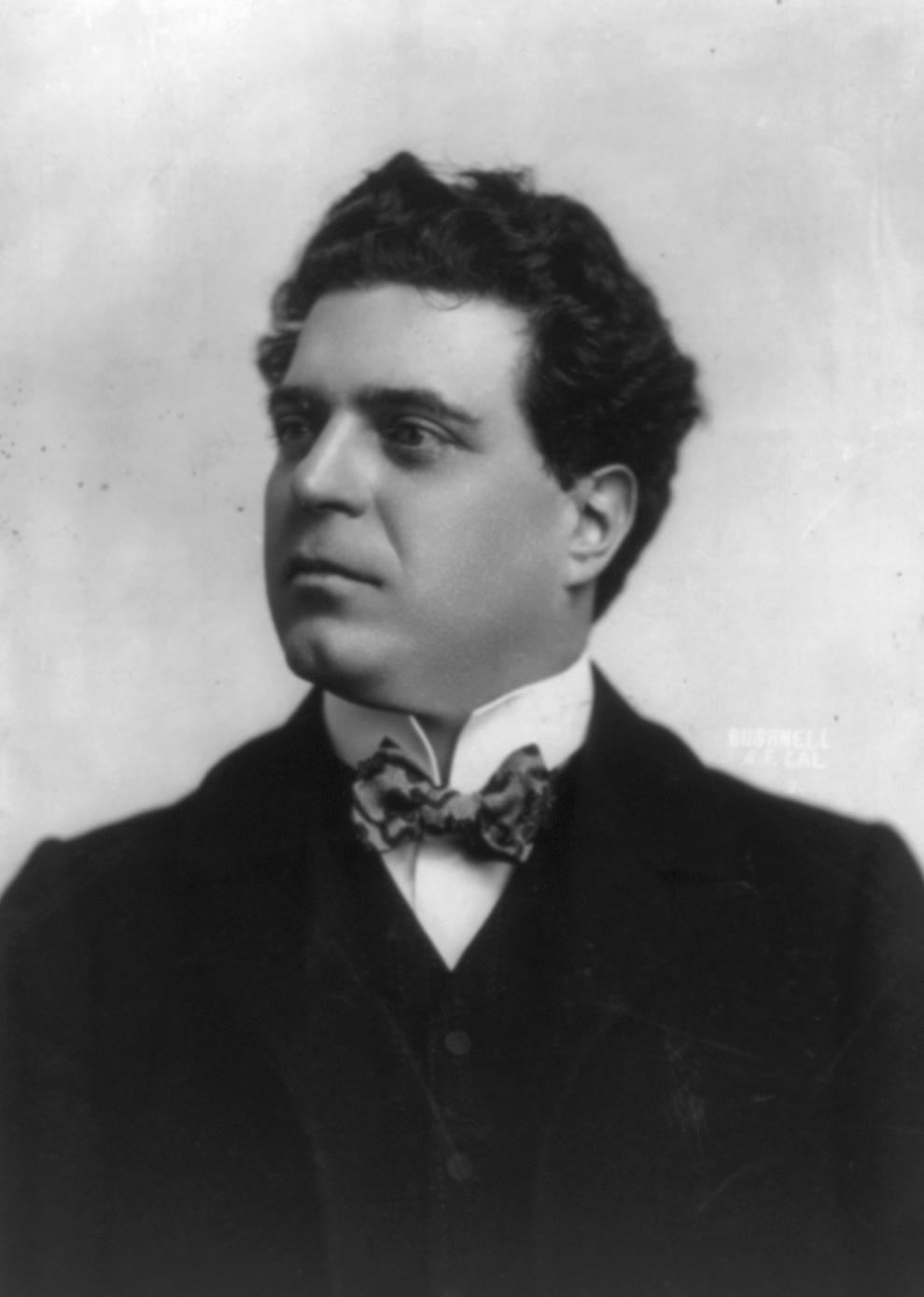 Pietro Mascagni (1863-1945), Italian composer.